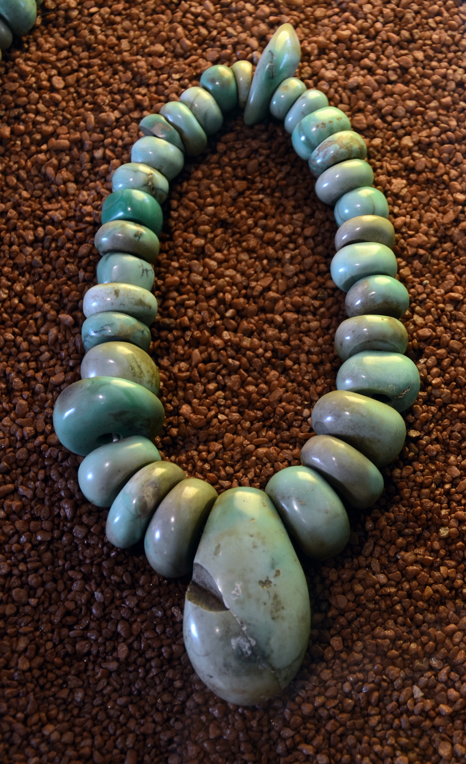 Necklace in callaïs ( this one in variscite ) found in the tumulus of Tumiac ( Presqu'île de Rhuys, Morbihan, Bretagne, France ).Neolithic, 4500 - 4000 BC. Musée d'Histoire et d'Archéologie de Vannes.